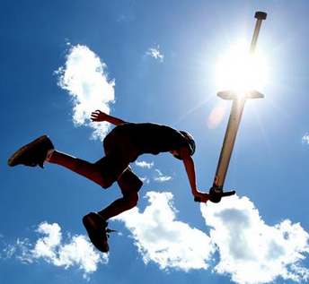 Xpogo rider throwing a Stickflip in Park City, UT